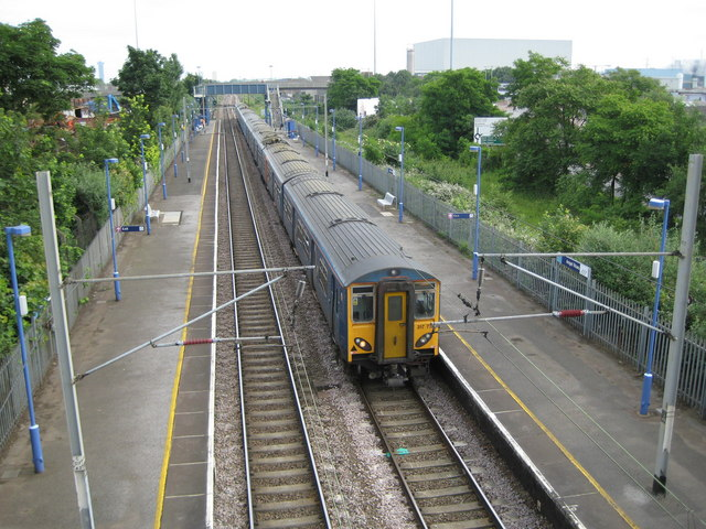 Edmonton: Angel Road railway station Angel Road has to be one of the least used railway stations in London. It is nowhere near any houses, near only a few industrial premises and demands a walk along busy main roads to its only point of access. This is reflected in the number of trains that stop here during the day. Yet oddly the station pre-dated all the general growth of Edmonton and was built as a country station where Angel Road, now the North Circular, crossed the line. Here a southbound National Express train, not stopping of course, runs through the deserted station. For the train-spotters the leading unit was 317 732.